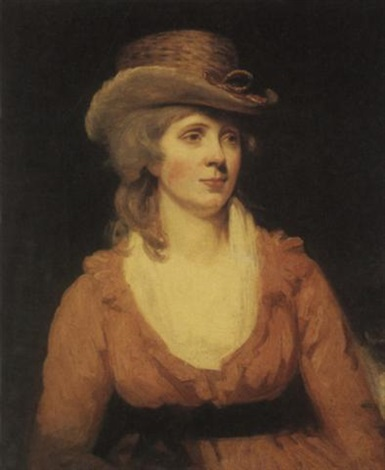 Portrait thought to be of Lady Elizabeth Spencer-Churchill (1798–1866), name before marriage Elizabeth Martha Nares.